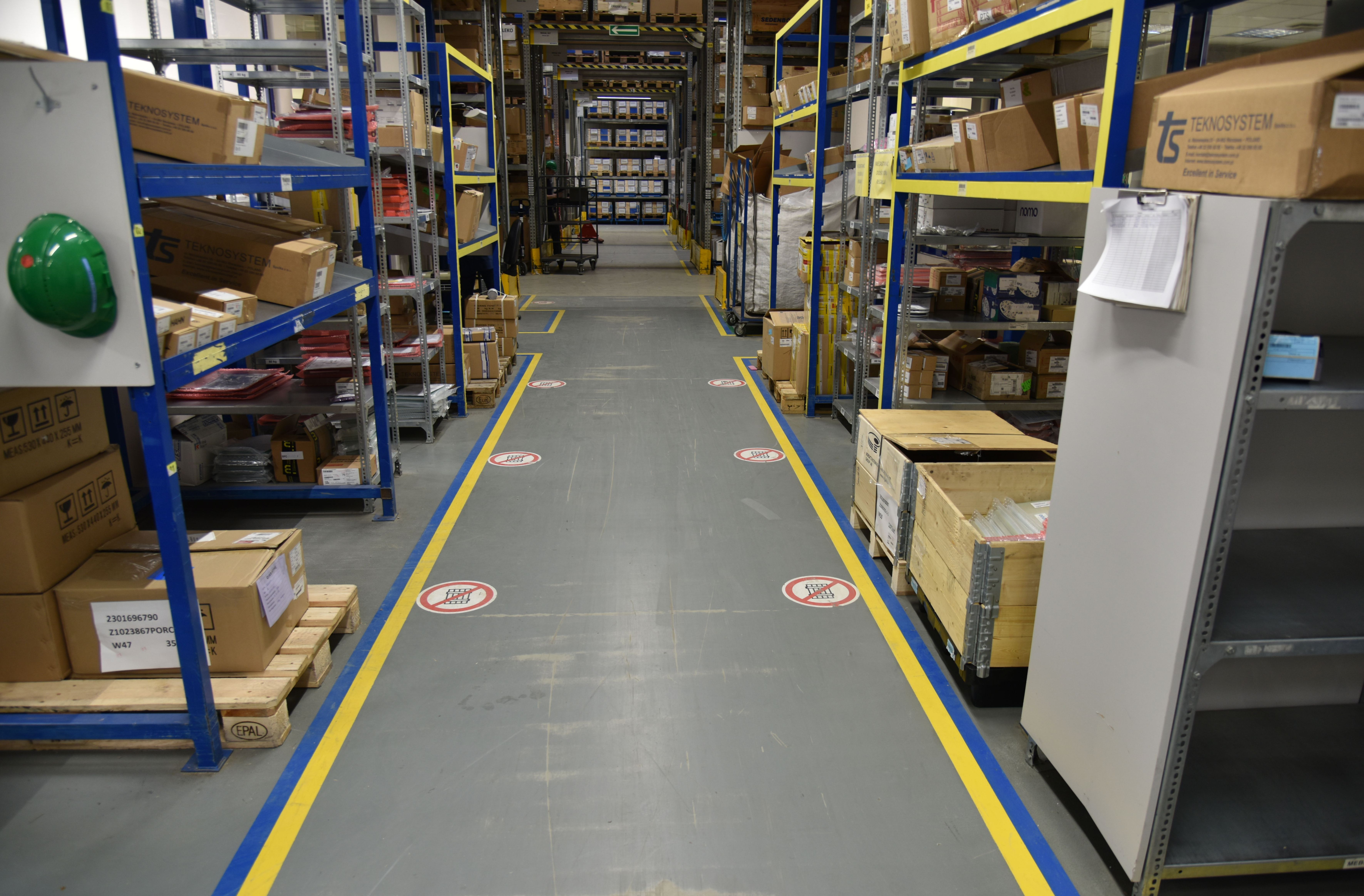 Warehouse at the Scanfil Poland factory in Sieradz